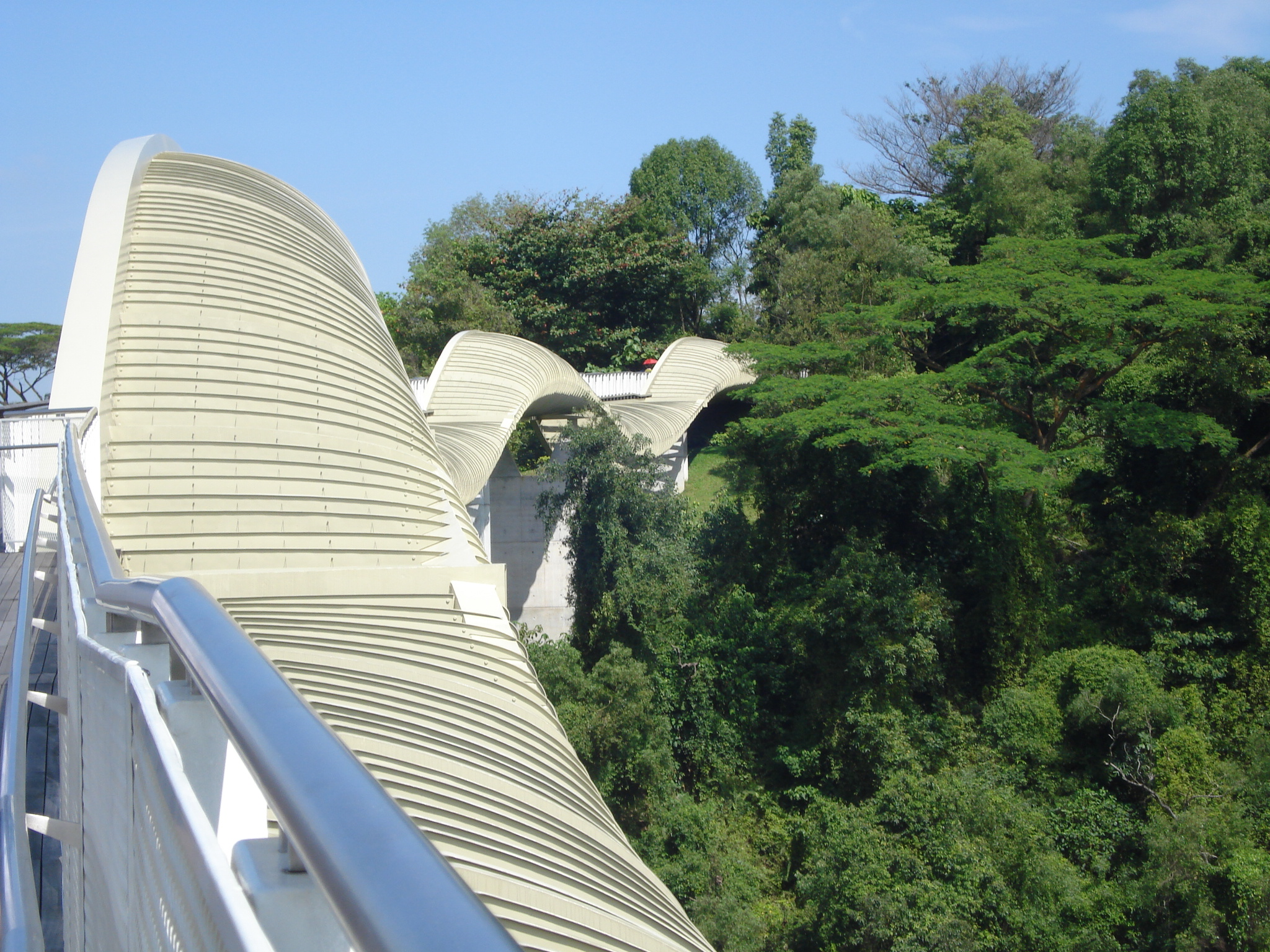 Henderson Waves, Singapore's highest pedestrian bridge. The Henderson Waves Bridge is located in Singapore. It is 274 meters long, 8 meters wide and 36 meters high. Henderson Waves crosses over Henderson Road, a six-lane freeway. It is made of yellow balau wood, used for the deck, and steel ribs alternating from above and below the deck which creates the wave like shape. That distinctive wave shape creates alcoves where people can rest and sit on the yellow balau wood benches. The 1,500 square meter deck is the centerpiece of the bridge.It is a pedestrian bridge connecting Mount Faber Park to Telok Blangah Hill Park. Henderson waves, along with two other bridges as part of an international contest to connect Mount Faber, Telok Blangah Hill and Kent Ridge Park, which are separated by major roads or wooded vegetation.Henderson Waves has seven spans. Six of them have three and a half meter high arches and are twenty four meters long. One is bigger, It is six meters high and fifth-seven meters long.The Henderson Waves Bridge is elevated in more on one side than the other. The difference in elevation is the height of a seven story building.The design for the Henderson Waves bridge was originally planned out with pencil and paper but then the Architects used complex mathematics to form the final product.